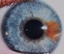 Picture of a blue right eye displaying sectorial heterochromia in the form of a large, orange spot.